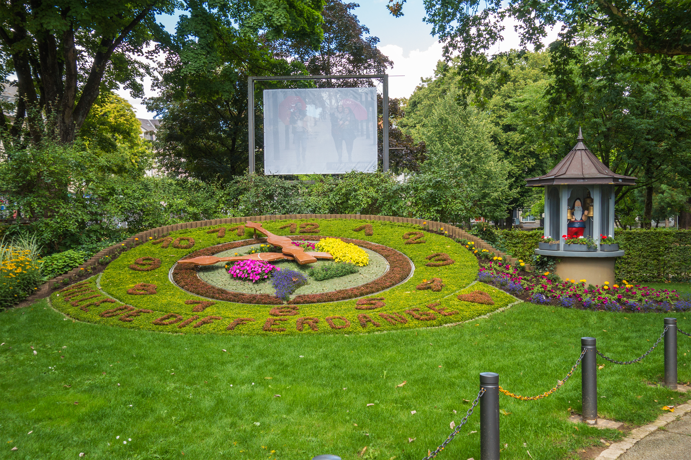 Flower clock in the park Gerlache